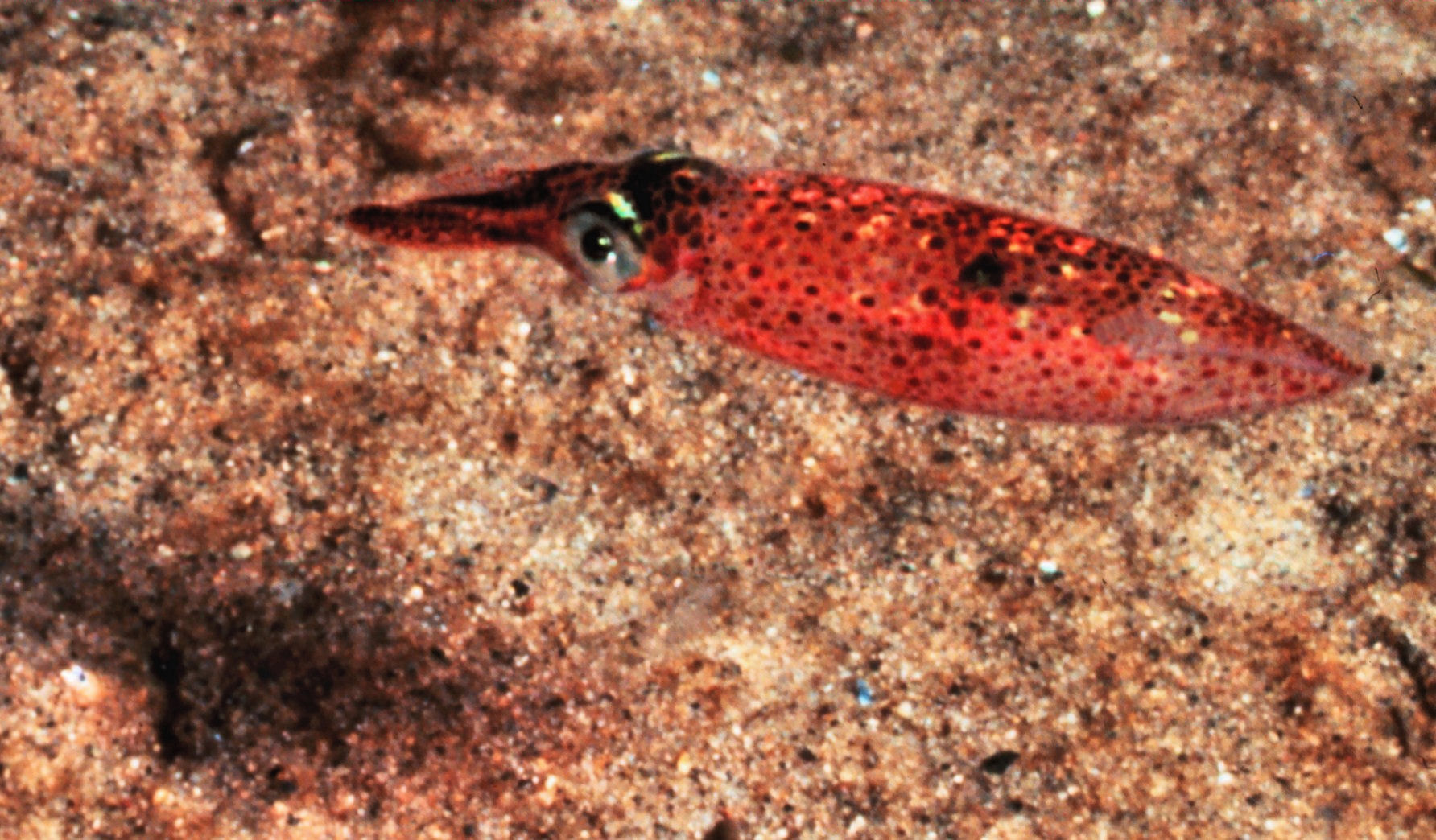 A squid - Illex illecebrosus - cruising over a sandy area of the bank. Massachusetts, Stellwagen Bank NMS.